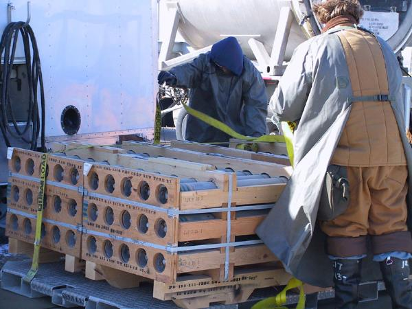 Workers at Deseret Chemical Depot (DCD), Utah, prepare a pallet of M55 VX Nerve Agent-filled Rockets for transport from DCD's chemical agent storage area to the nearby Tooele Chemical Agent Disposal Facility (TOCDF) for destruction. DCD's inventory of over 7,800 the rockets were safely destroyed in 2003.